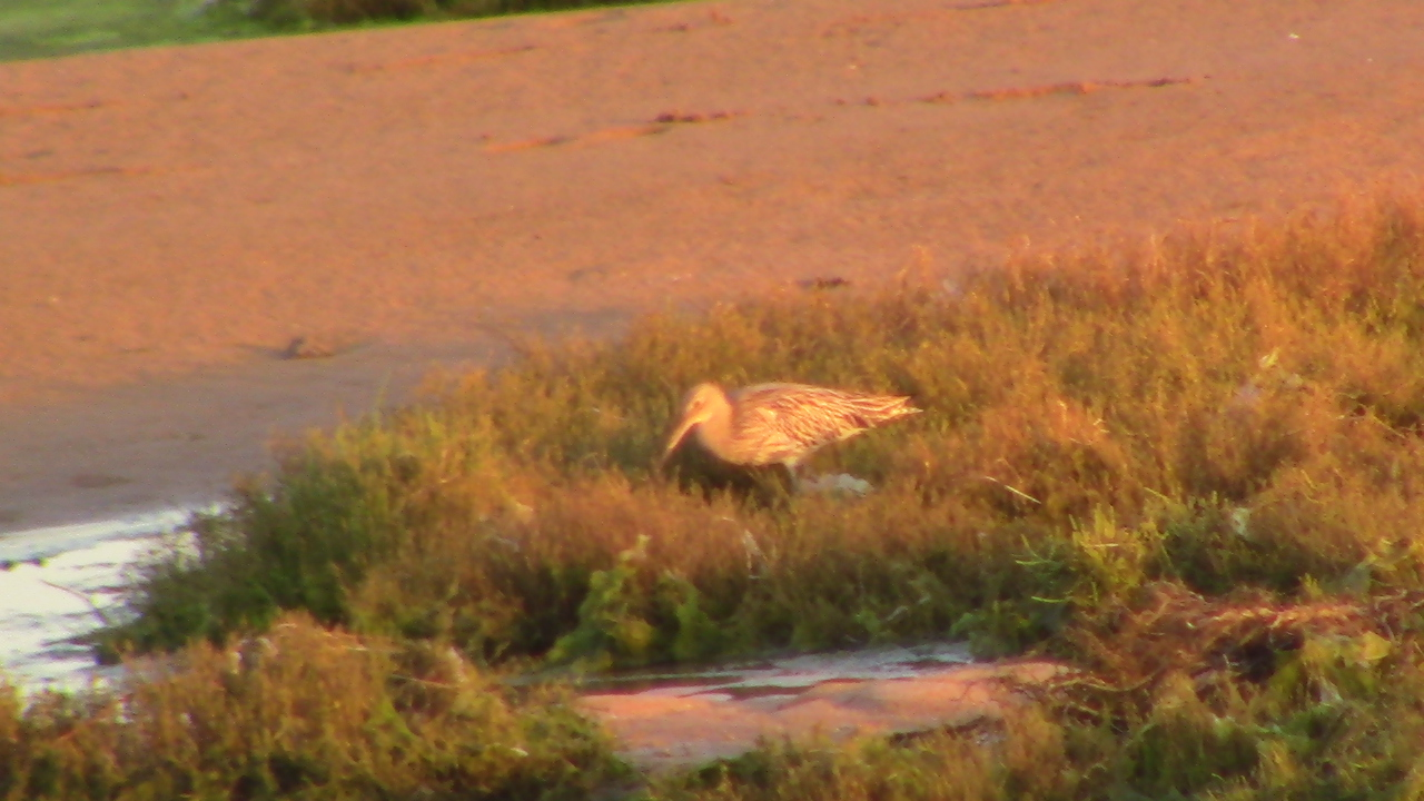 Sidi Moussa Lagoon Nature Preserve - View